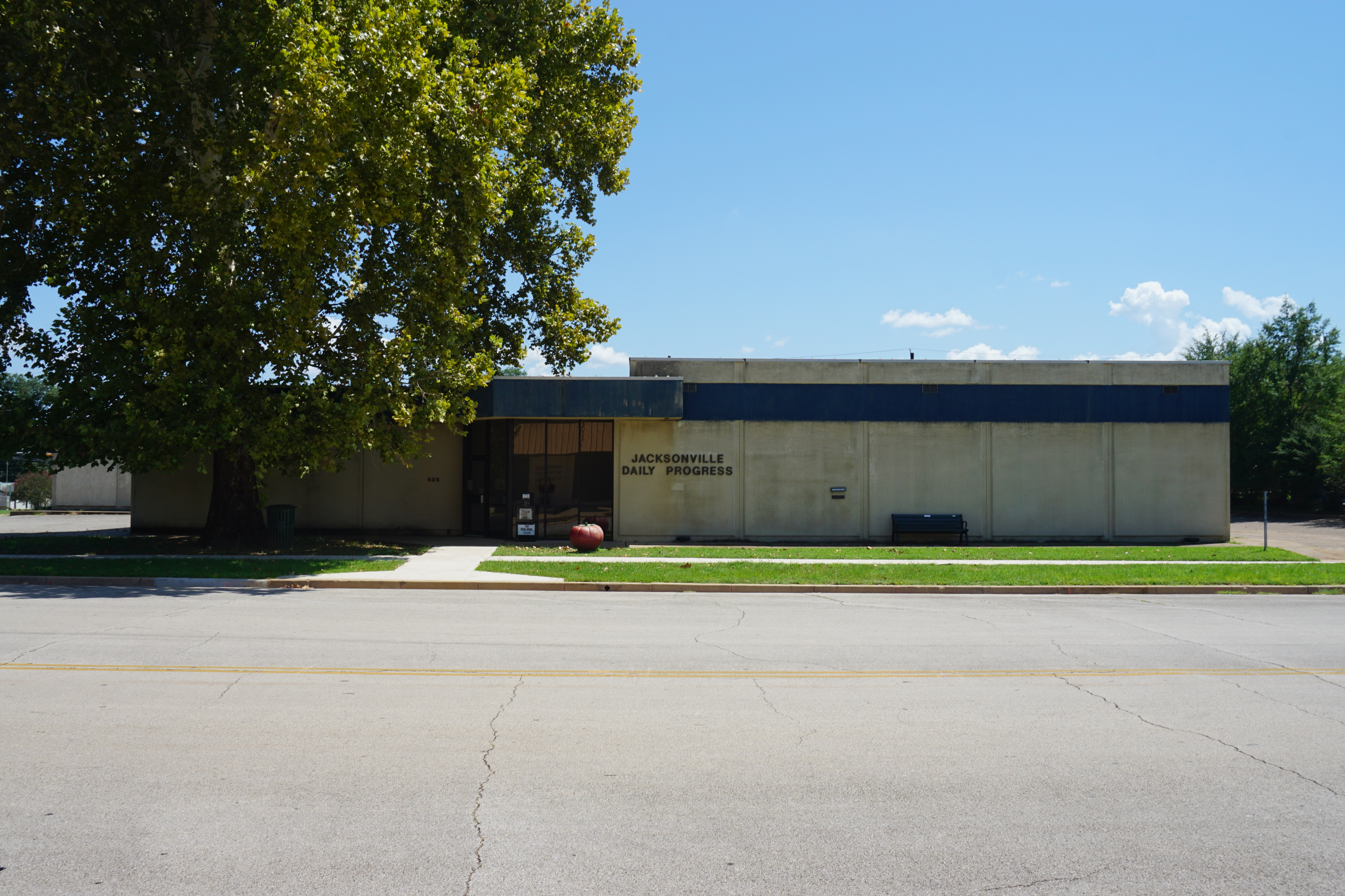 The Jacksonville Daily Progress building in Jacksonville, Texas (United States).